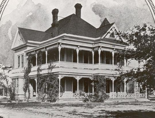 The home of the President of Texas A&M in the 1890s.